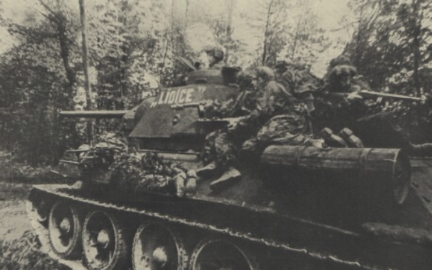 Tank "Lidice", Czechoslovak army in the USSR